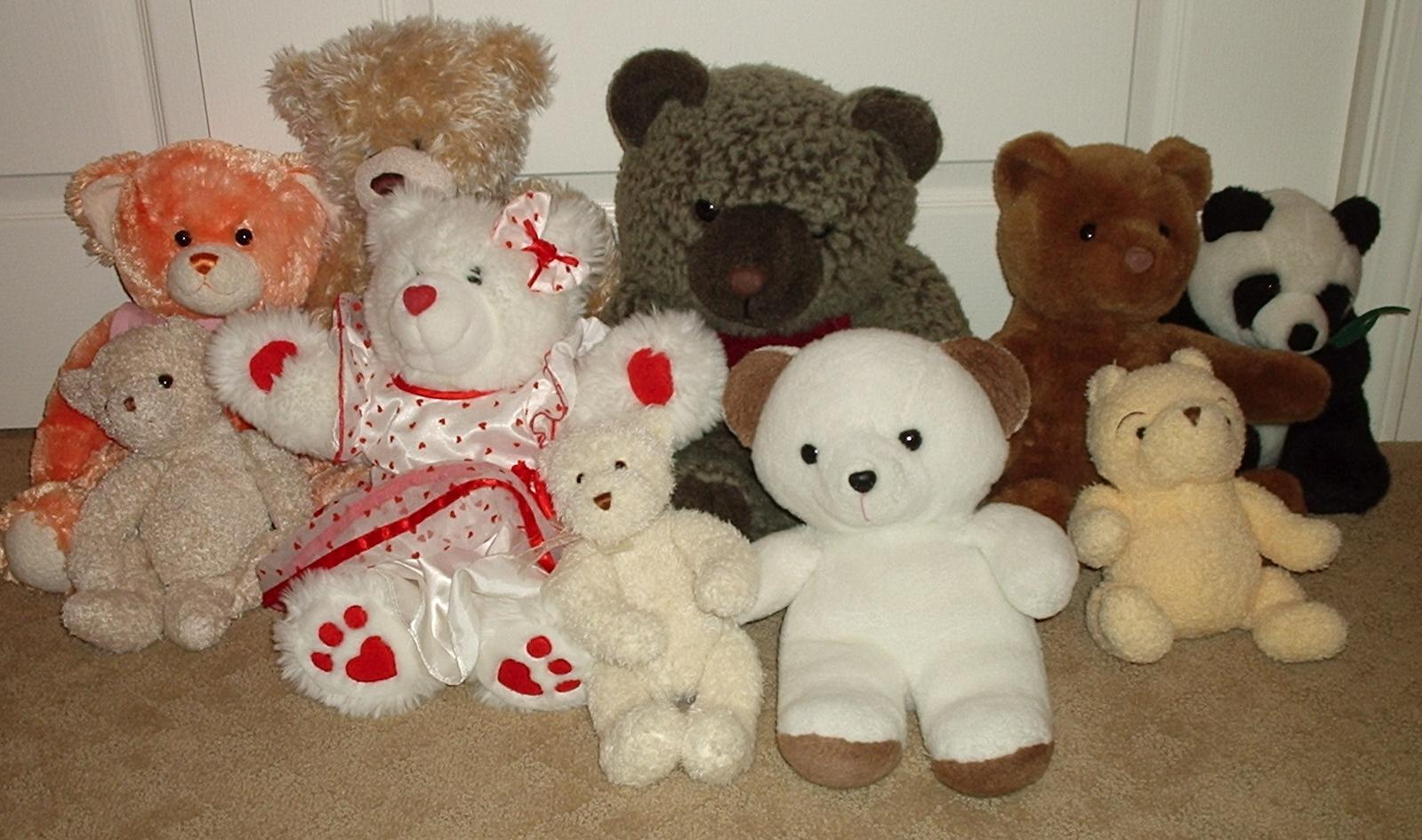 Ten (10) different Teddy Bears of varying color, size, shape, etc.